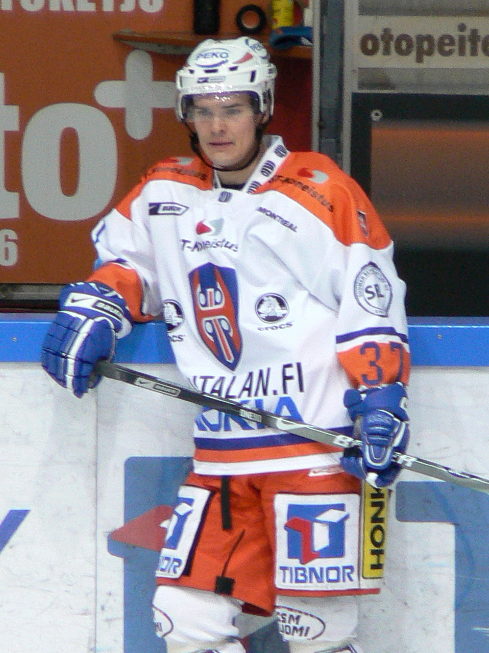 Finnish ice hockey forward Timo Vertala playing for Tappara Tampere in January 2009.